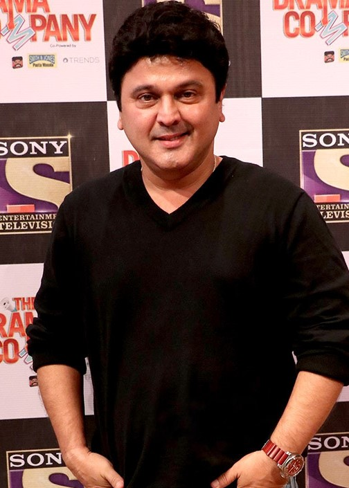 Ali Asgar attend the press conference of their show The Drama Company.